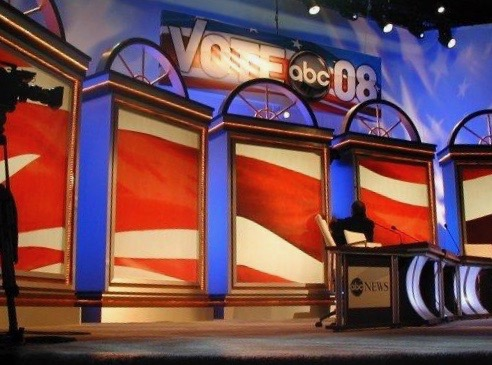 An image of the debate at Saint Anselm College during the New Hampshire primary... facebook sponsored the debates, I had the honor as a student to take the image